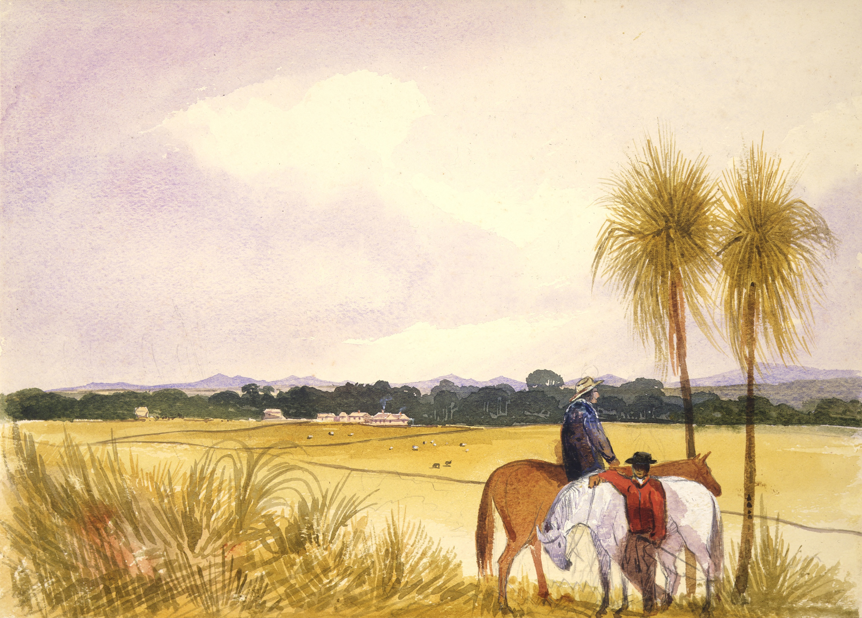 Shows two men with horses in foreground, cabbage trees to the right, farm buildings across fields. The farm, correctly Koreromaiwaho, adjacent to Westoe, William Fox's run, was owned by William Jarvis Willis.